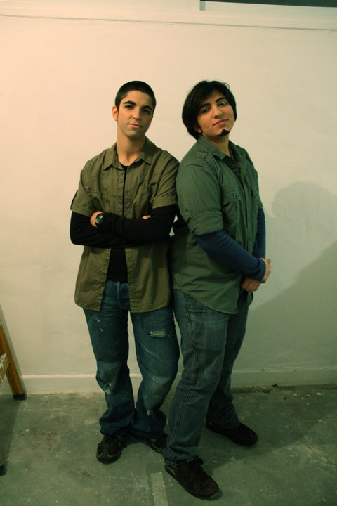 Gaylord Rothschild and Lord Snow, popular Tel Aviv drag kings